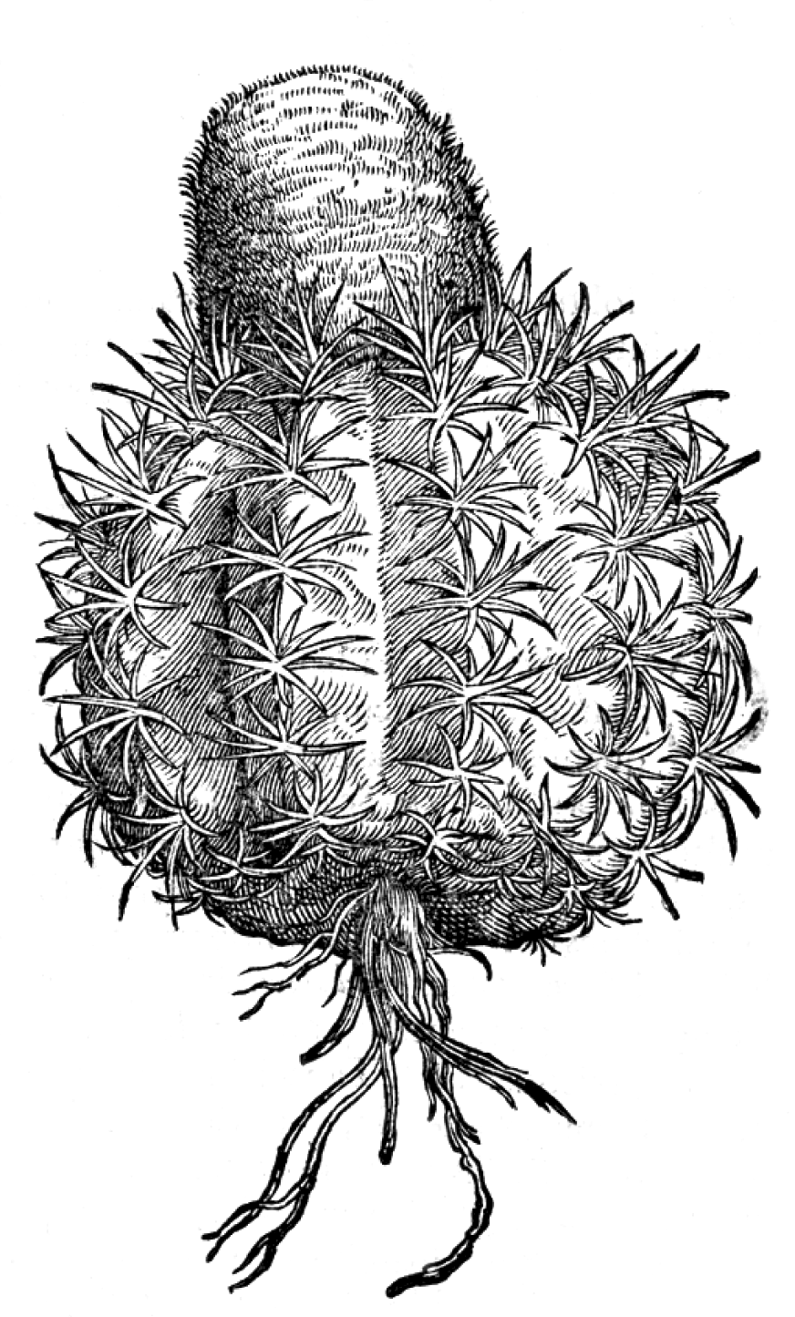 Melocactus